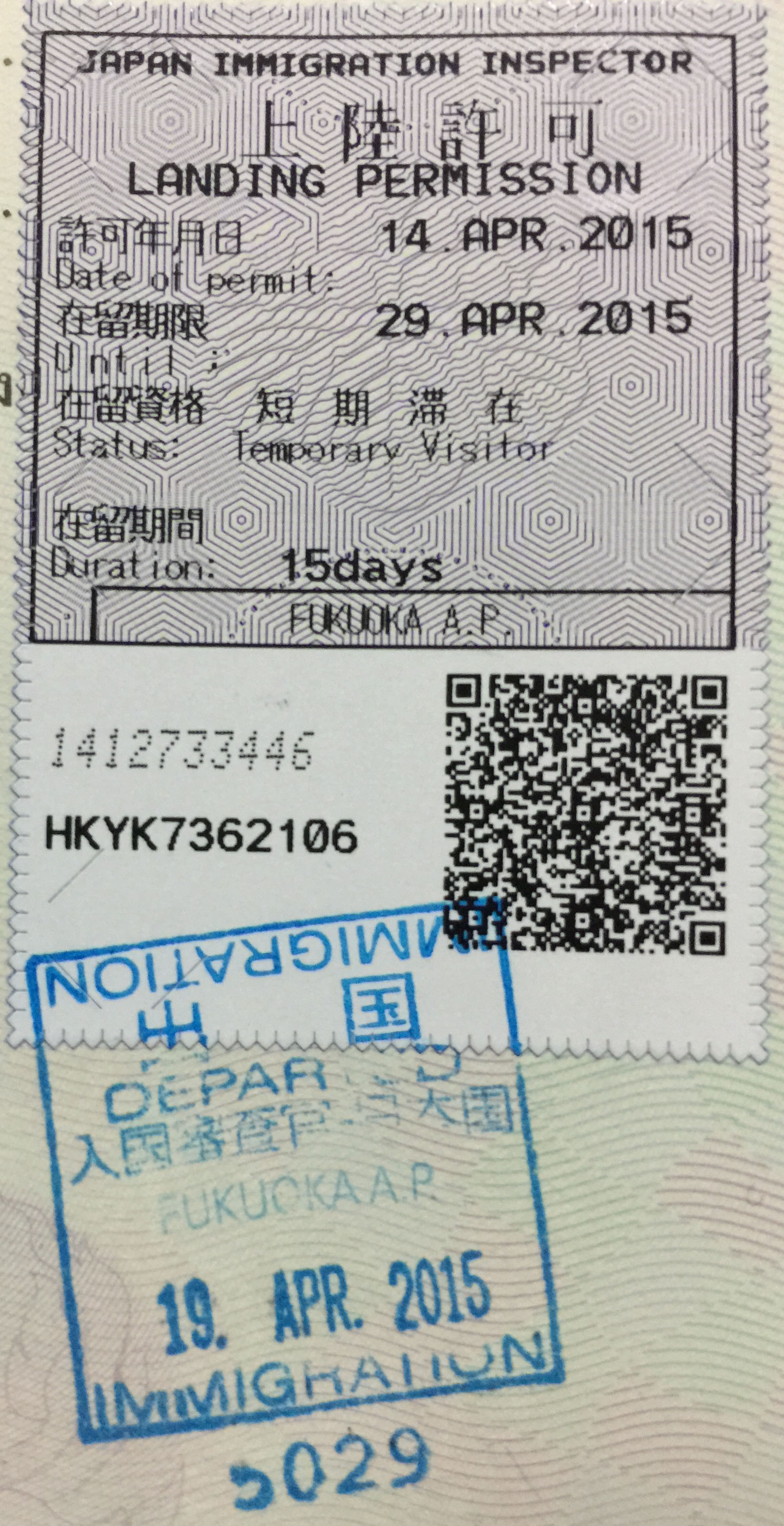 Temporary visitor landing permission sticker and exit stamp at Fukuoka Airport in a Thai passport.